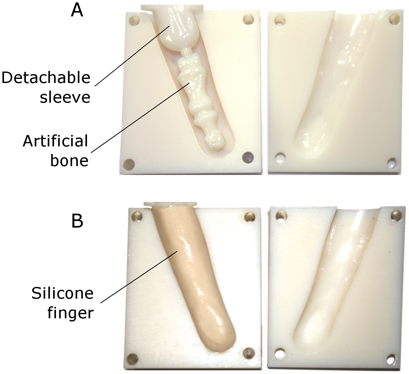 Shows the moulding process used to create a prosthetic finger. Original caption: Figure 4. The prosthetic finger. (A) The moulds of the patient's reconstructed bone, which was accurately positioned using the fins. (B) The reconstructed finger after the silicone's curing process. Citation: Cabibihan J-J (2011) Patient-Specific Prosthetic Fingers by Remote Collaboration–A Case Study. PLoS ONE 6(5): e19508. Editor: Alejandro Almarza, University of Pittsburgh, United States of America Received: January 10, 2011; Accepted: March 30, 2011; Published: May 4, 2011 Copyright: © 2011 John-John Cabibihan. This is an open-access article distributed under the terms of the Creative Commons Attribution License, which permits unrestricted use, distribution, and reproduction in any medium, provided the original author and source are credited. Funding: This work was supported by the Academic Research Fund Tier 1, Ministry of Education, Singapore under the project R-263-000-506-133. The funders had no role in study design, data collection and analysis, decision to publish, or preparation of the manuscript. Competing interests: The author has declared that no competing interests exist.